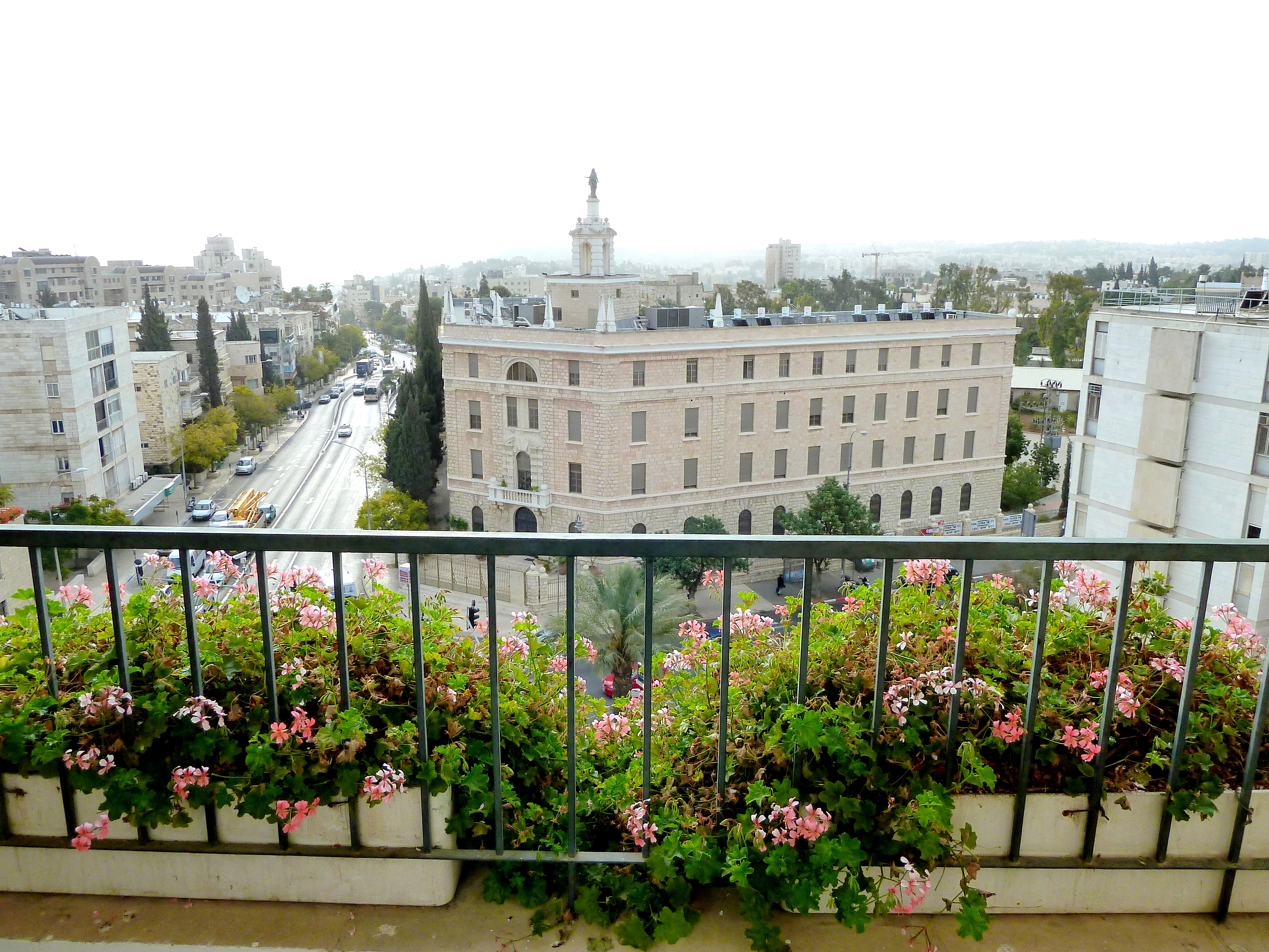 Jerusalem Terra Sancta College and Keren HaYesod street seen from a balcony with pelargoniums